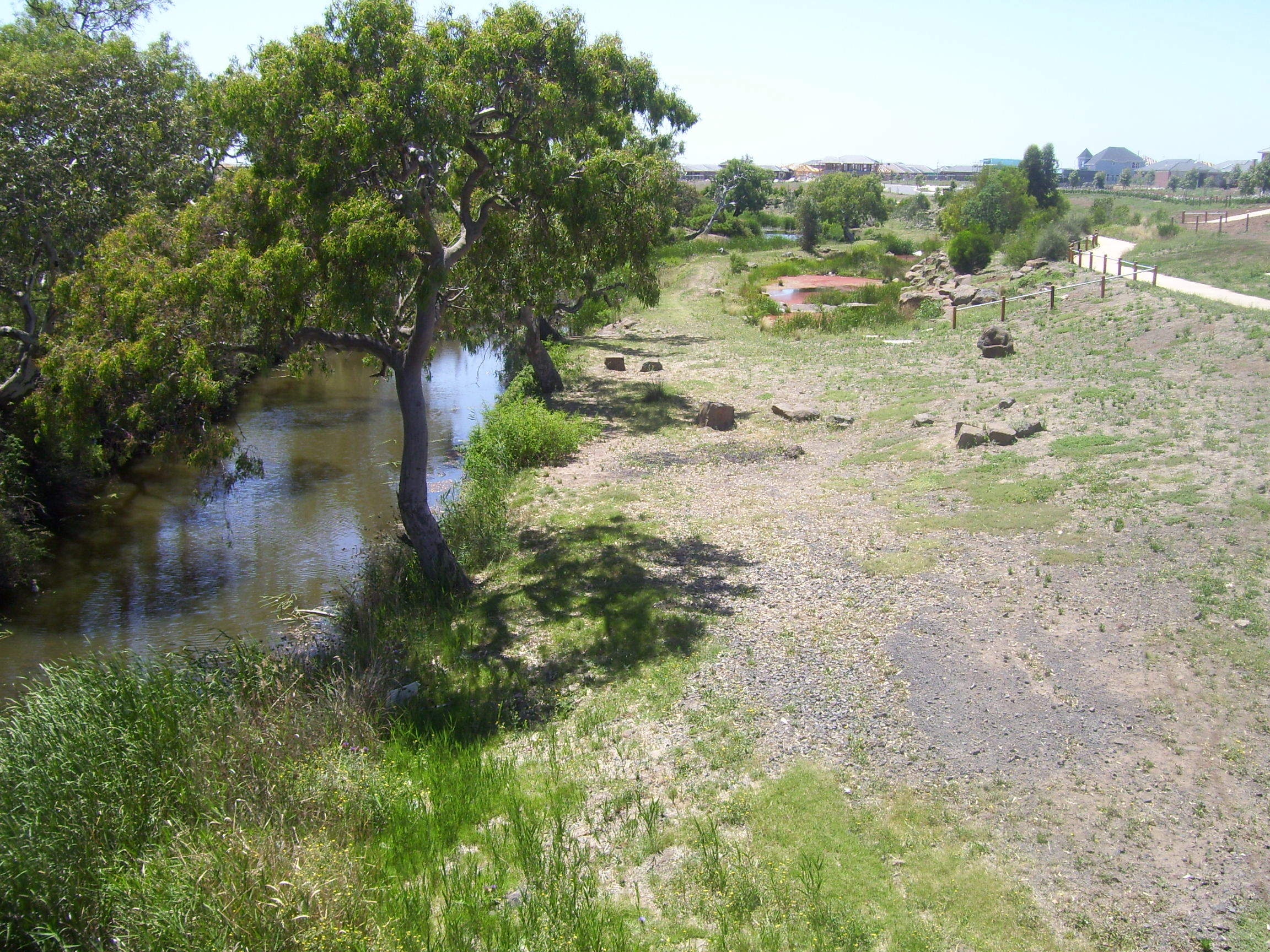 Kororoit Creek, Caroline Springs, Victoria, Australia